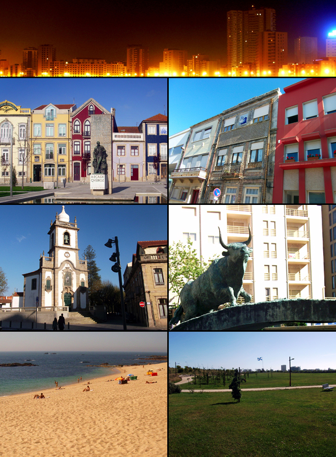 Title Picture For Póvoa de Varzim Wikipedia articles